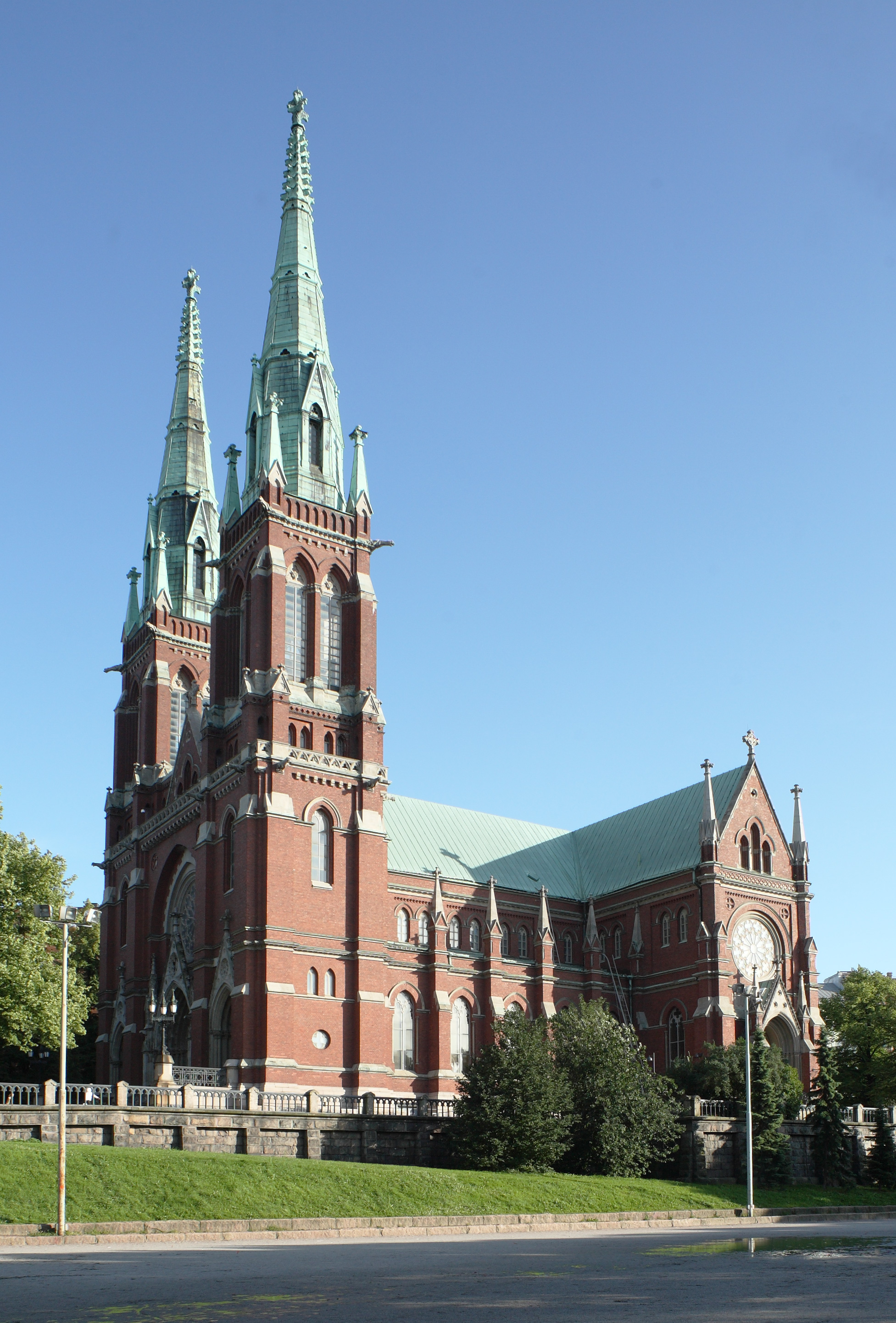 Johannes Church, Helsinki